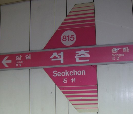 Seokchon Station